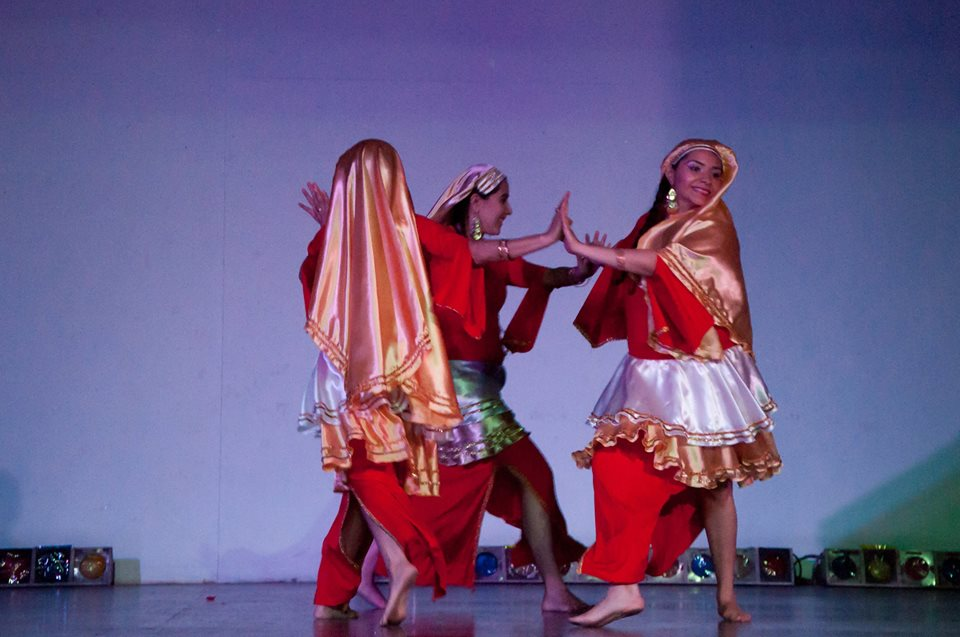 Hagallah dancing